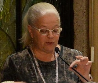 President Reuven Rivlin and his wife host the Fourteenth Bible Lesson in Project 929. Sunday, September 17, 2017. Photo Credit: Mark Neyman / GPO.